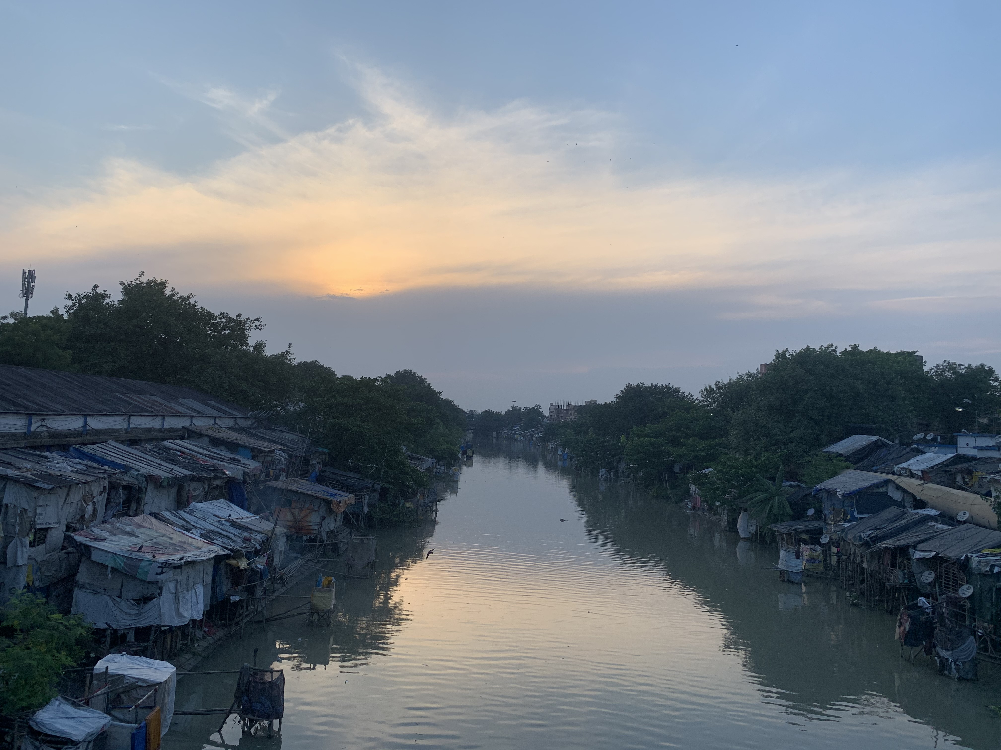 View of Slum area from Barrackpore Bridge during Covid-19 pandemic in Kolkata, India.